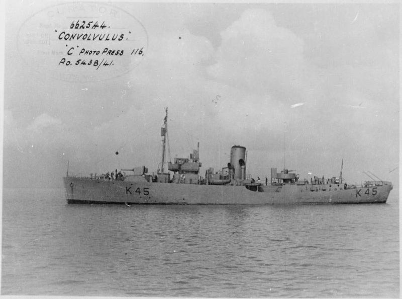 An image of the Flower-class Corvette HMS Convolvulus (K45), just after completion.